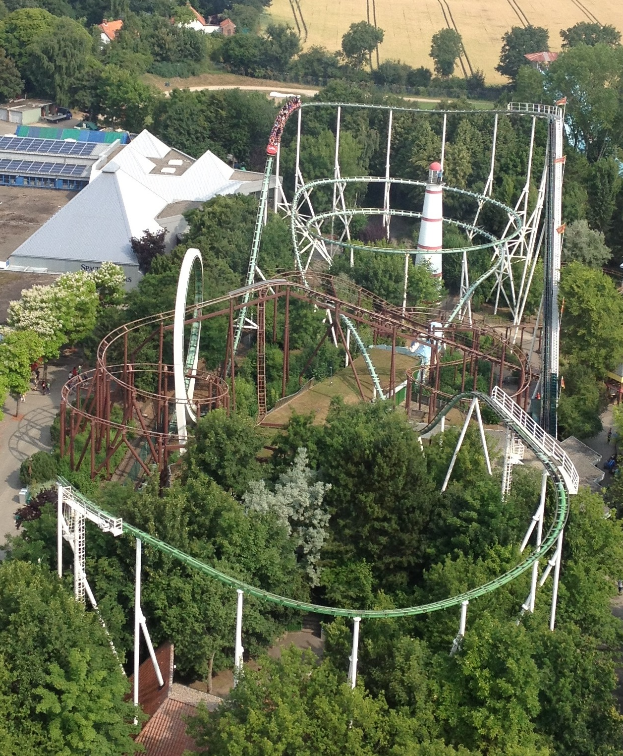 Nessie Superrollercoaster and Rasender Roland from the Holstein-Turm at Hansa-Park, Germany.